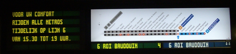 Train indicator from the Brussels Subway lines 2&6. Made at station Simonis (Leopold II) Remarkable is the position of the disused station Sainctelette, which is marked unnamed on this board.